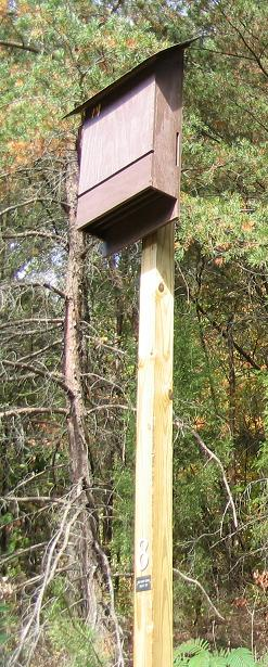 Photo by Quadell